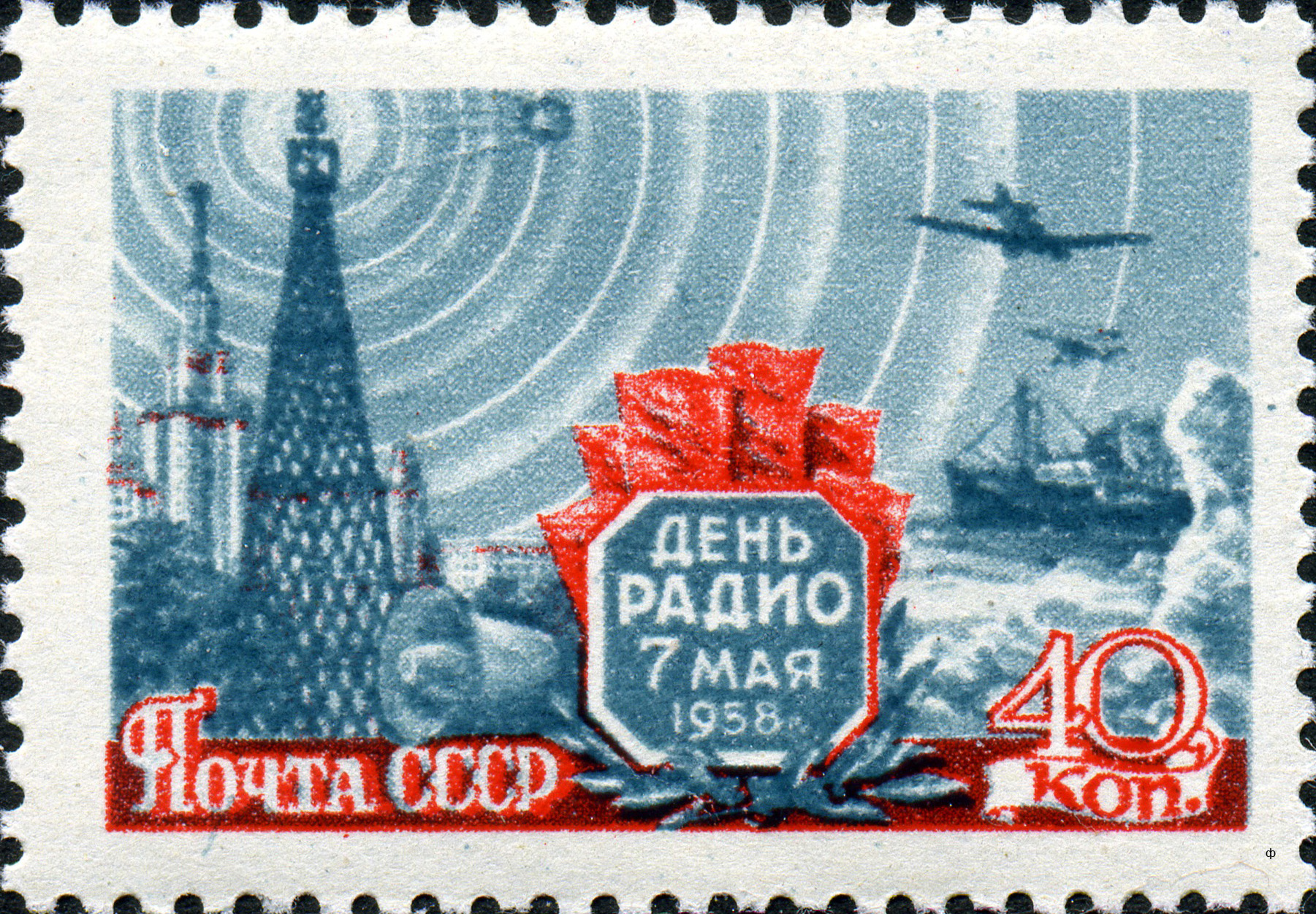 Radio Day, May 7 1958